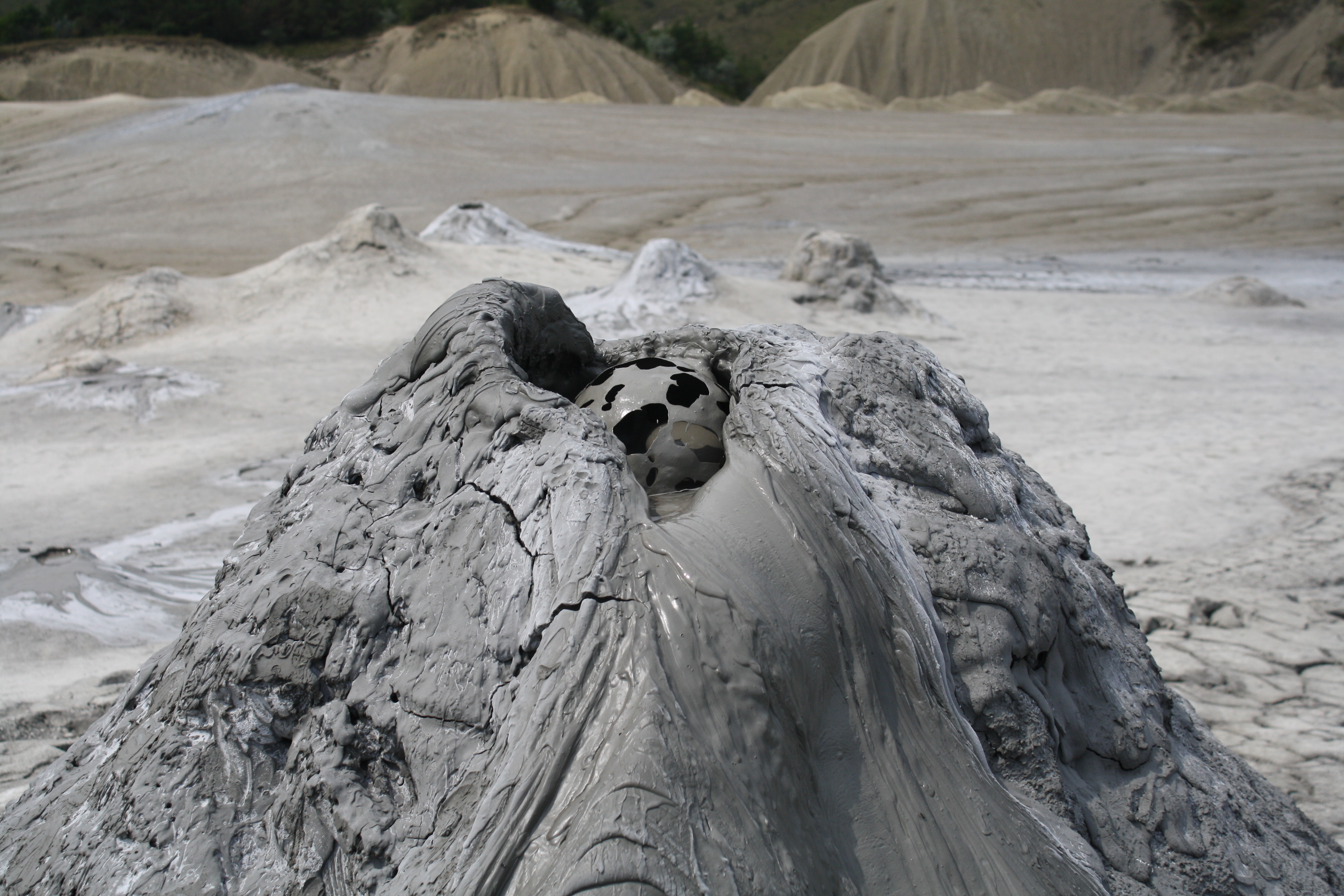 Mud volcano in Berca/Romania